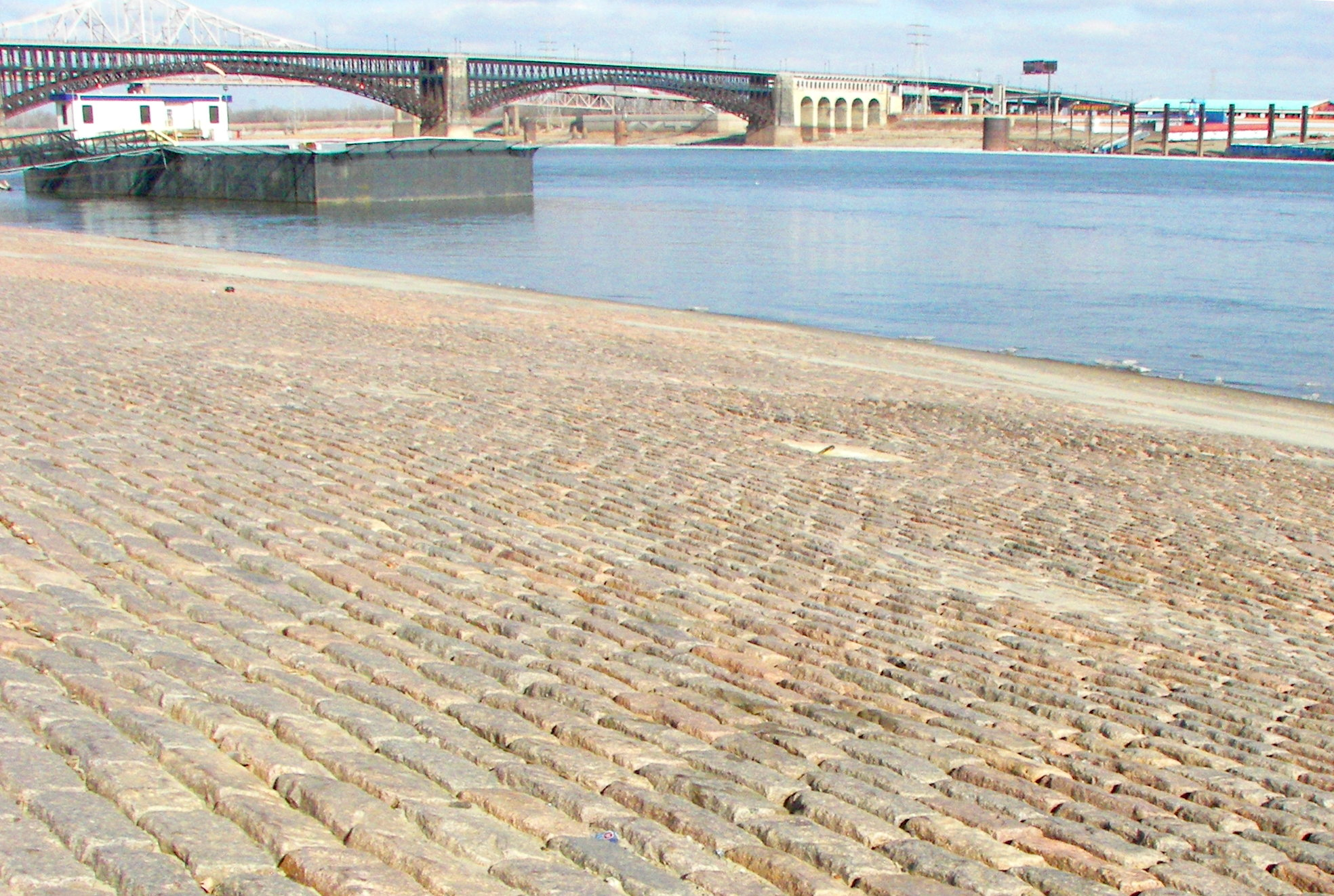 Setts (cobblestones) of the St. Louis riverfront (foreground) and historic Eads Bridge over the Mississippi River (background). The piers of the bridge and the cobbles are both of red Missouri granite from the St. Francois Mountain region of the Ozarks. The image has been rotated and cropped (can't seem to hold that camera level!), and the contrast and saturation have been adjusted. In all other respects the scene is exactly as the camera recorded it.